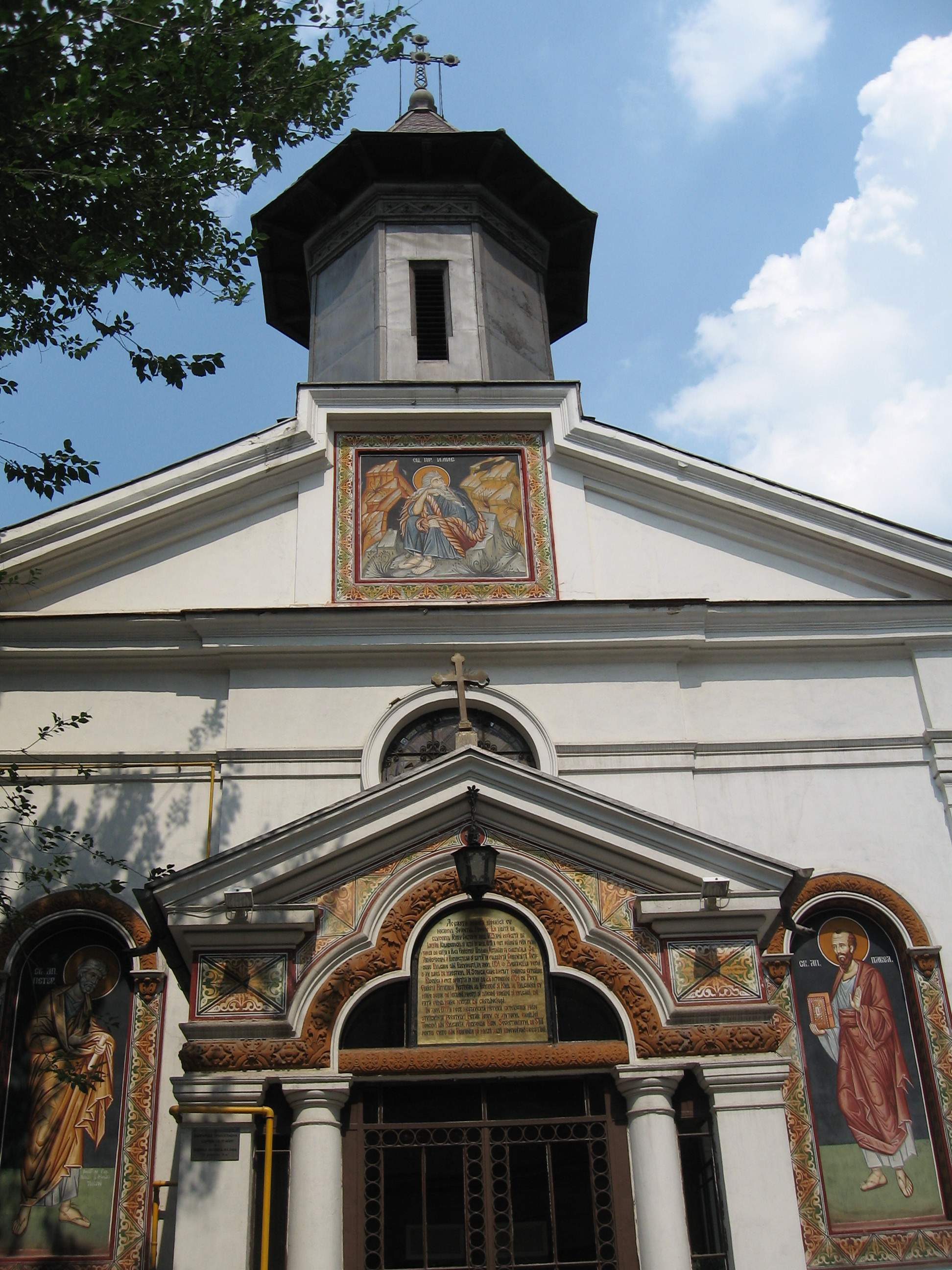 Bulgarian Orthodox Church of St Elijah the Prophet, Bucharest, Romania